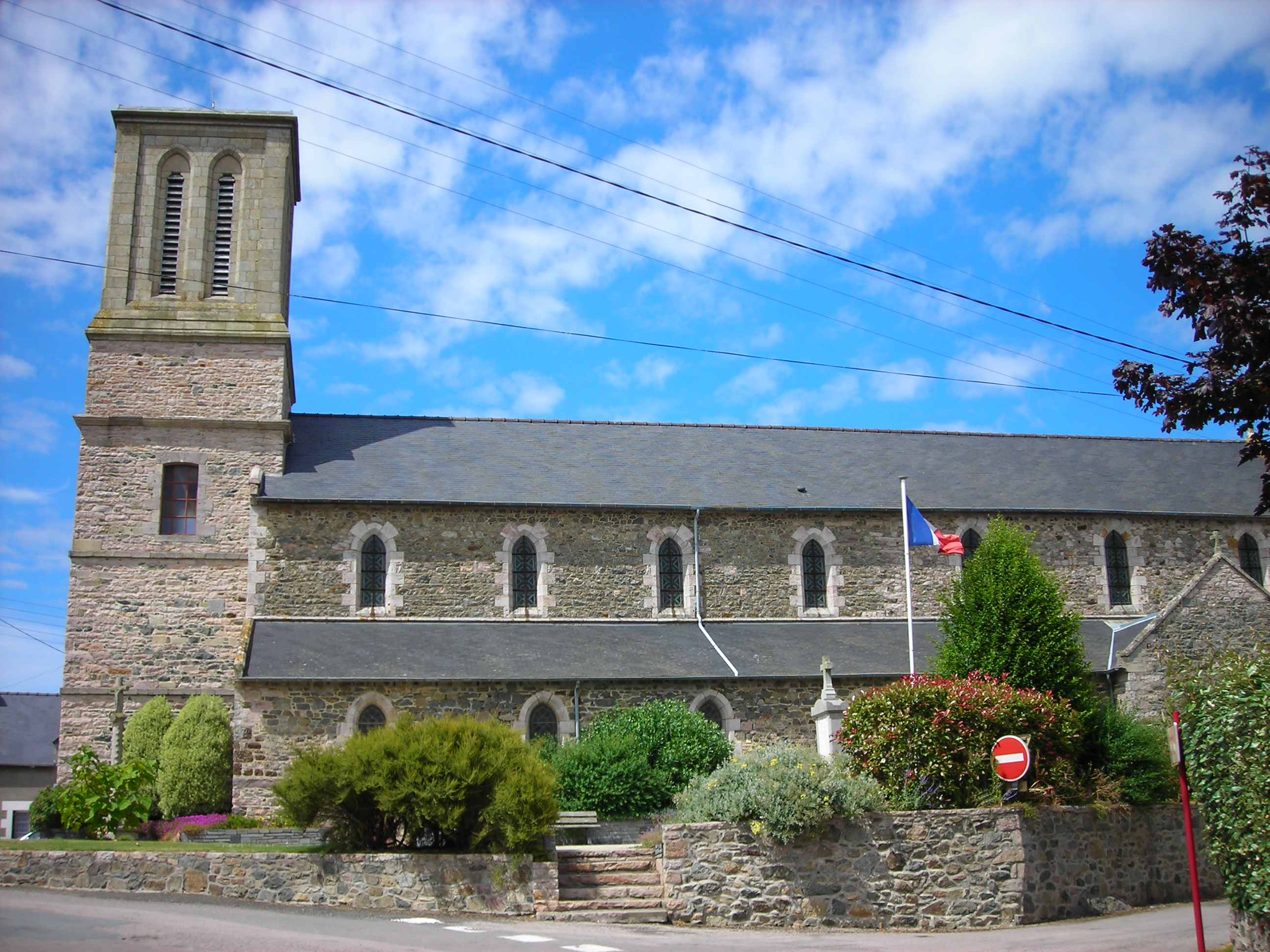 Churche of the Boullie (Côtes-d'Armor, France, Europe)